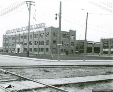 Photo of the GM factory in Regina in 1928